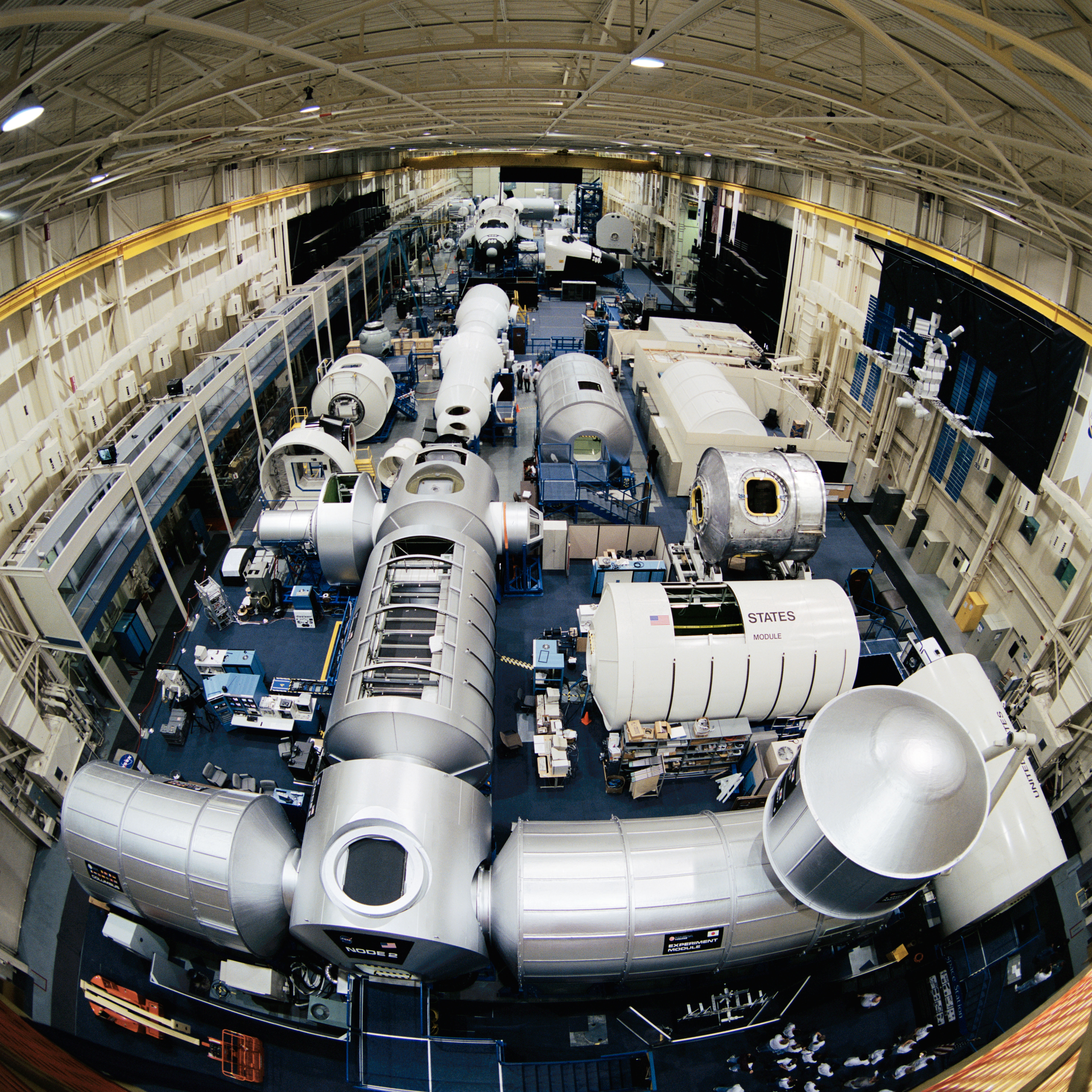 The Johnson Space Center ISS mock-up area fish eye angle view